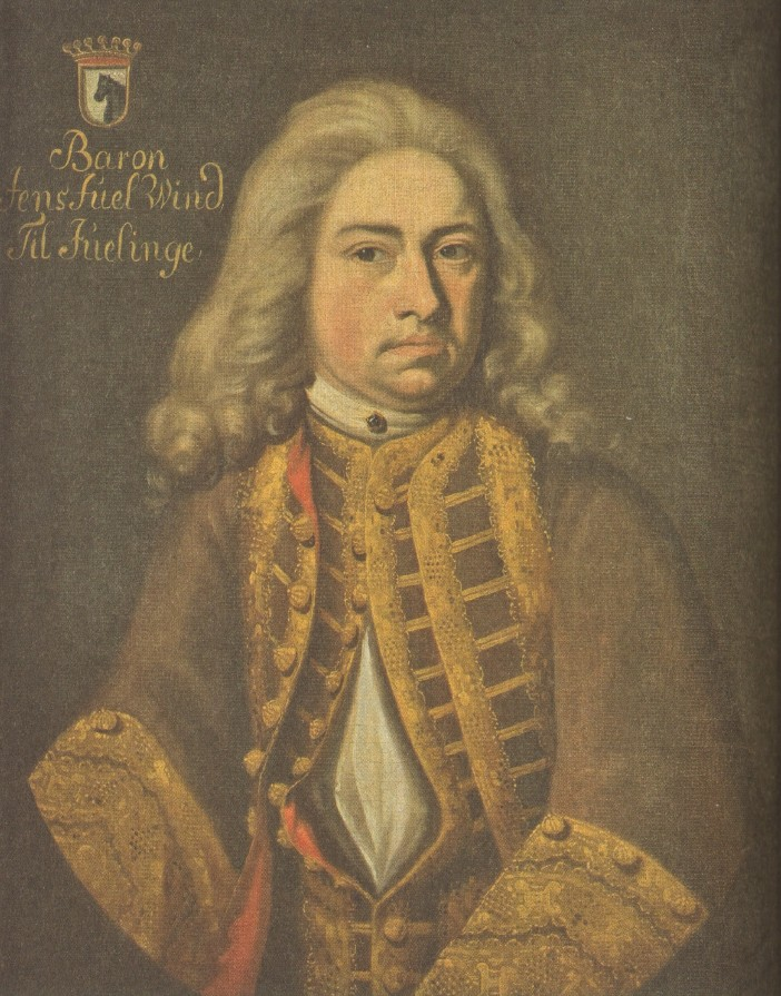 Jens Juel-Vind, Danish nobleman and landowner